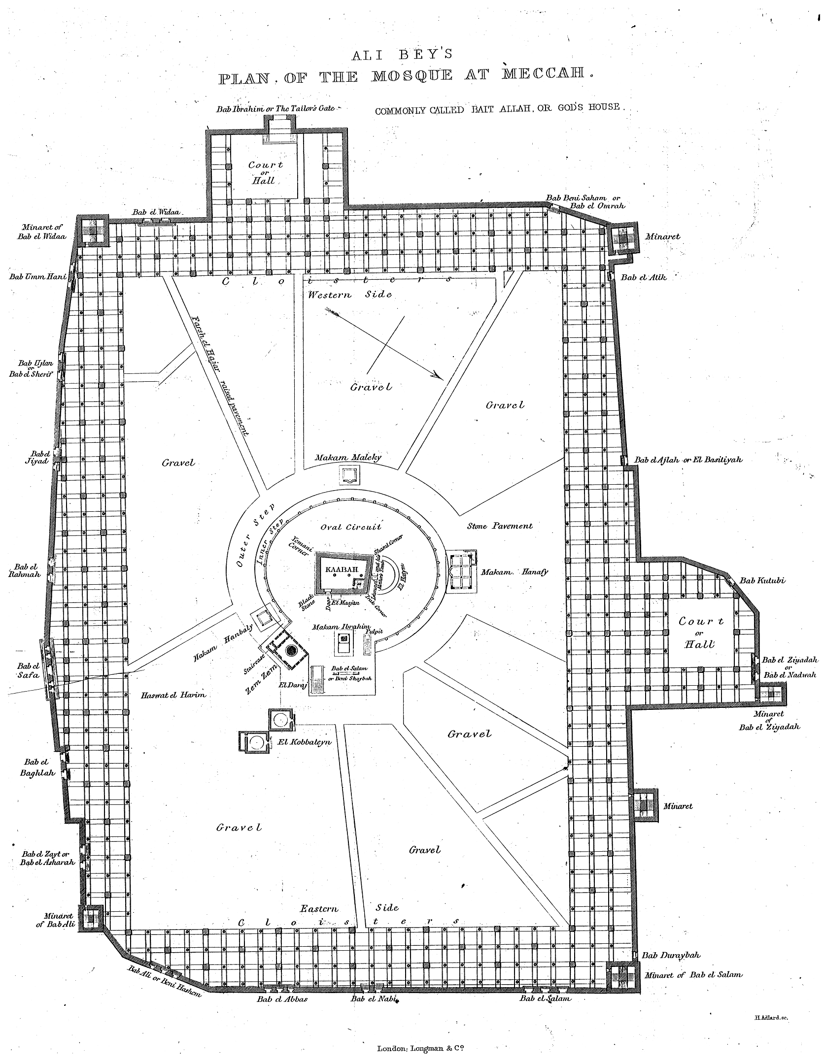 Floor plan of the Great Mosque (Masjid al-Haram) at Mecca